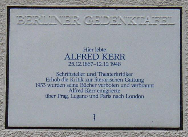 Berlin memorial plaque for Alfred Kerr in Berlin-Grunewald, Germany